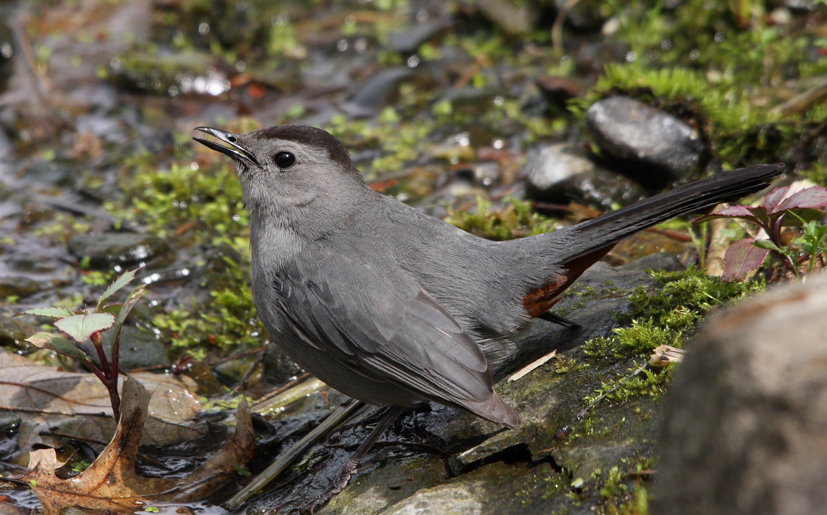 Grey Catbird (Dumetella carolinensis) drinking, Roger Van den Hende Botanical Garden, Quebec City, Canada.